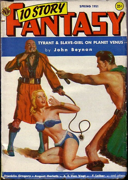 10 Story Fantasy, Spring 1951